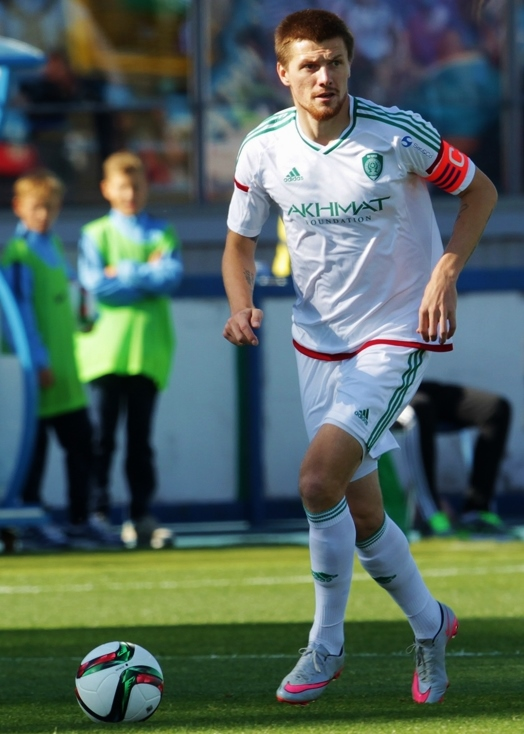 Oleg Ivanov